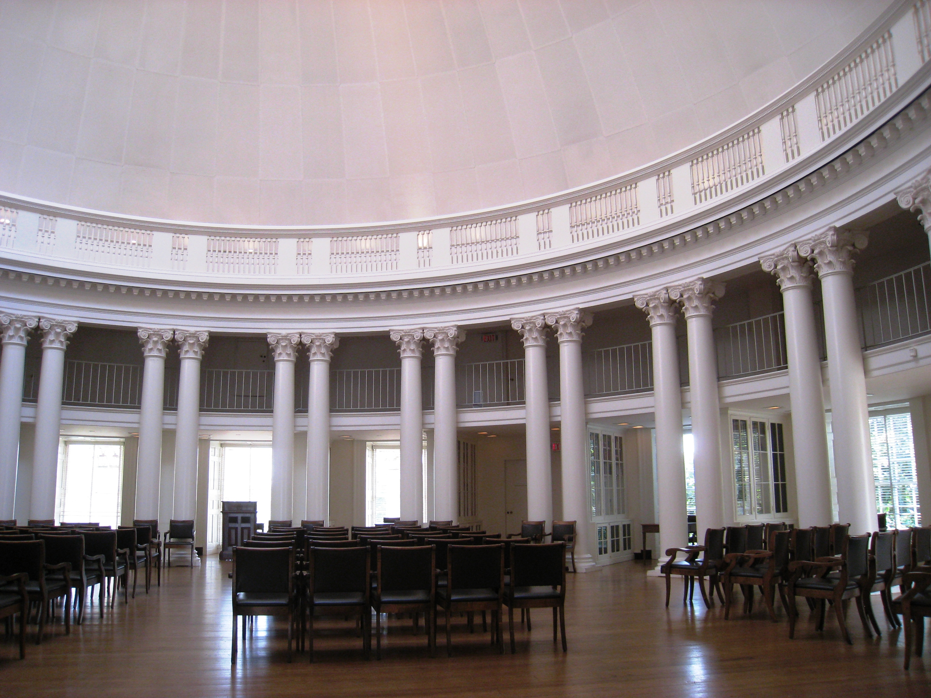 Dome, Rotunda (University of Virginia), Charlottesville, Virginia, USA.